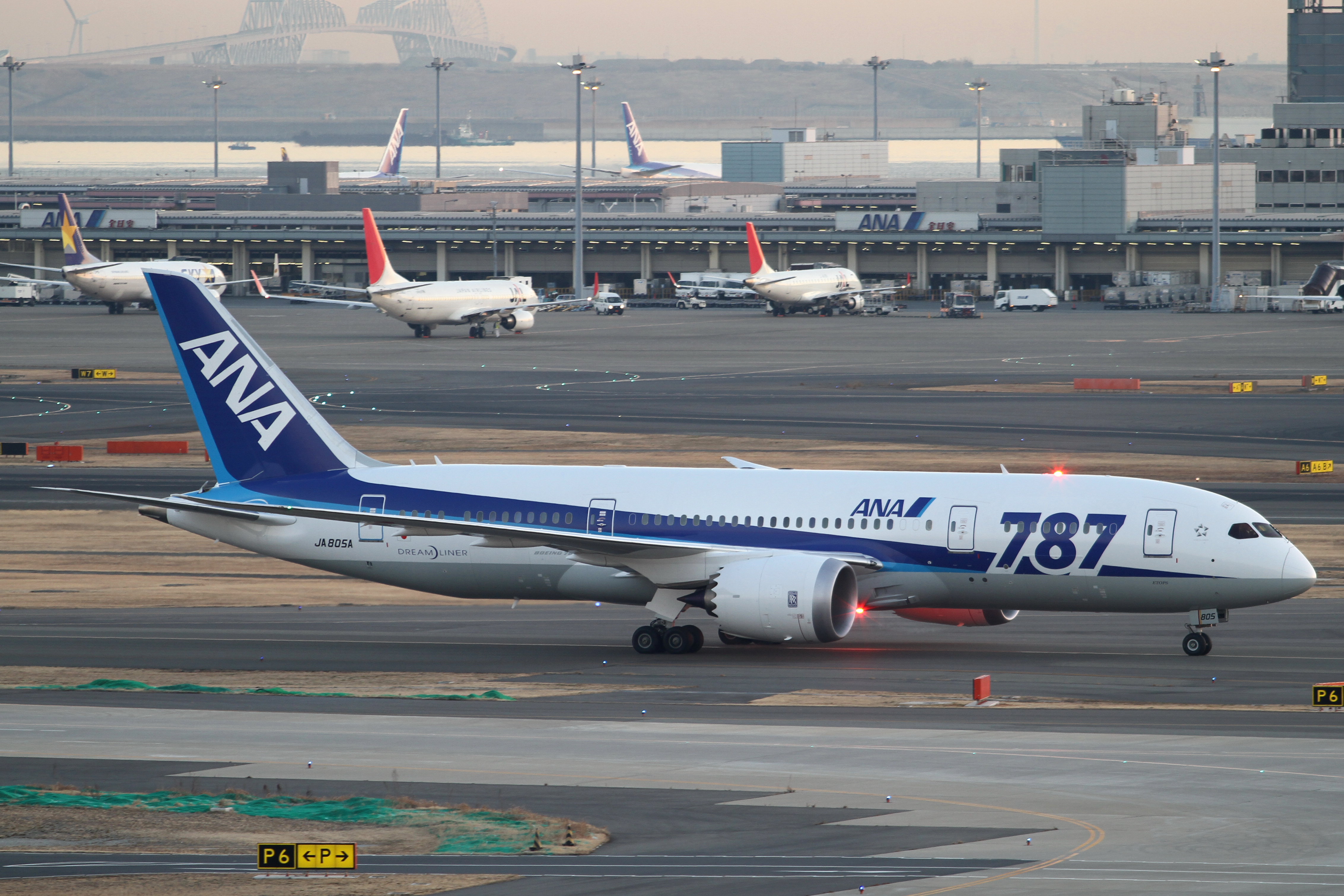 Tokyo International Airport, Boeing 787-881, c/n:34514, All Nippon Airways